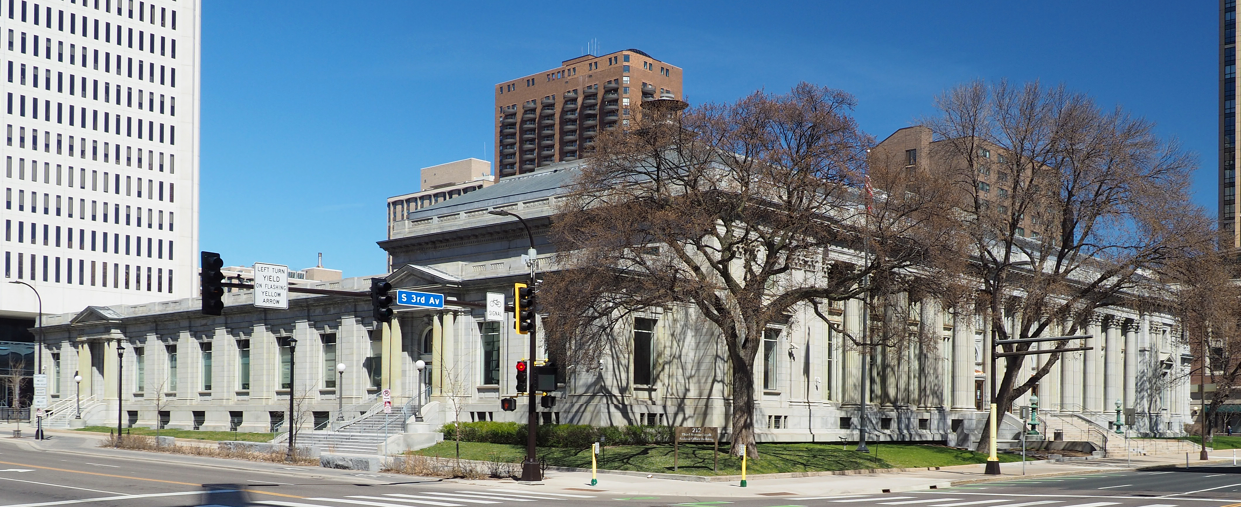 Old Federal Building, 212 3rd Ave S, Minneapolis, Minnesota, USA. Viewed from the south.